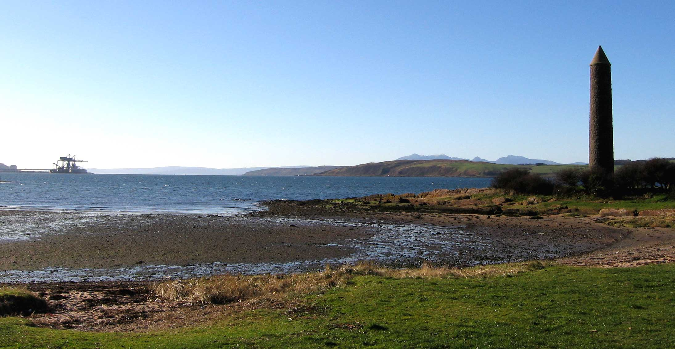 The Largs Pencil stands just over a mile (1.8 km) south of the town centre, to commemorate the Battle of Largs. Looking south, the bulk ore terminal at Hunterston stands on the mainland, and in the Firth of Clyde the islands of Little Cumbrae and Great Cumbrae can be seen in front of the grey outline of the Isle of Arran.